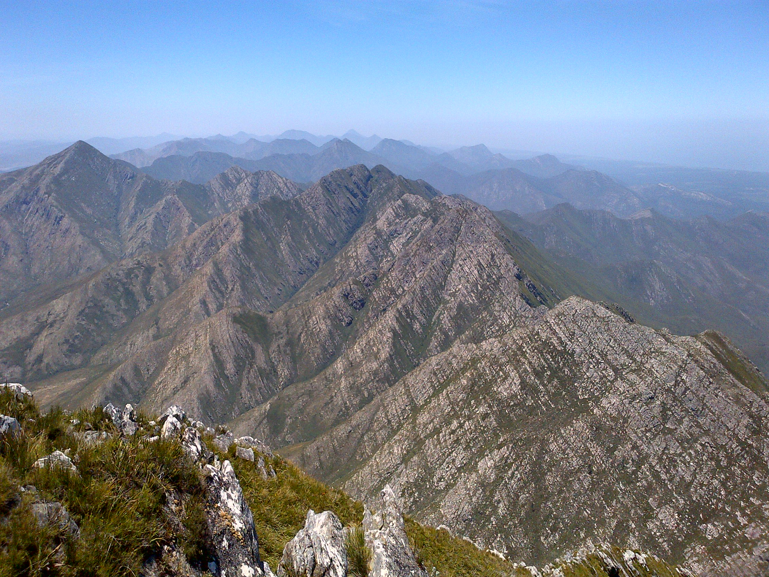 View of Tsitsikamma Mountain range looking east from Peak Formosa, Garden Route, South Africa